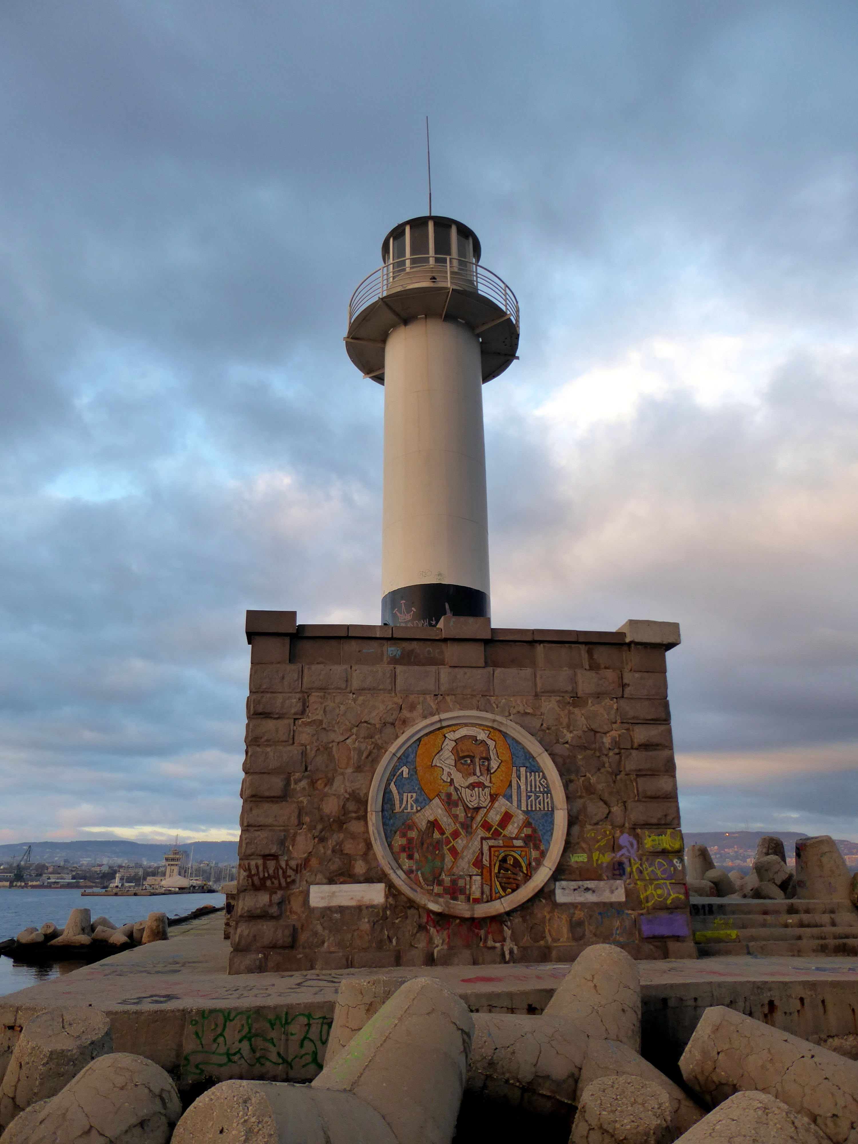 Varna Seaport Lighthouse